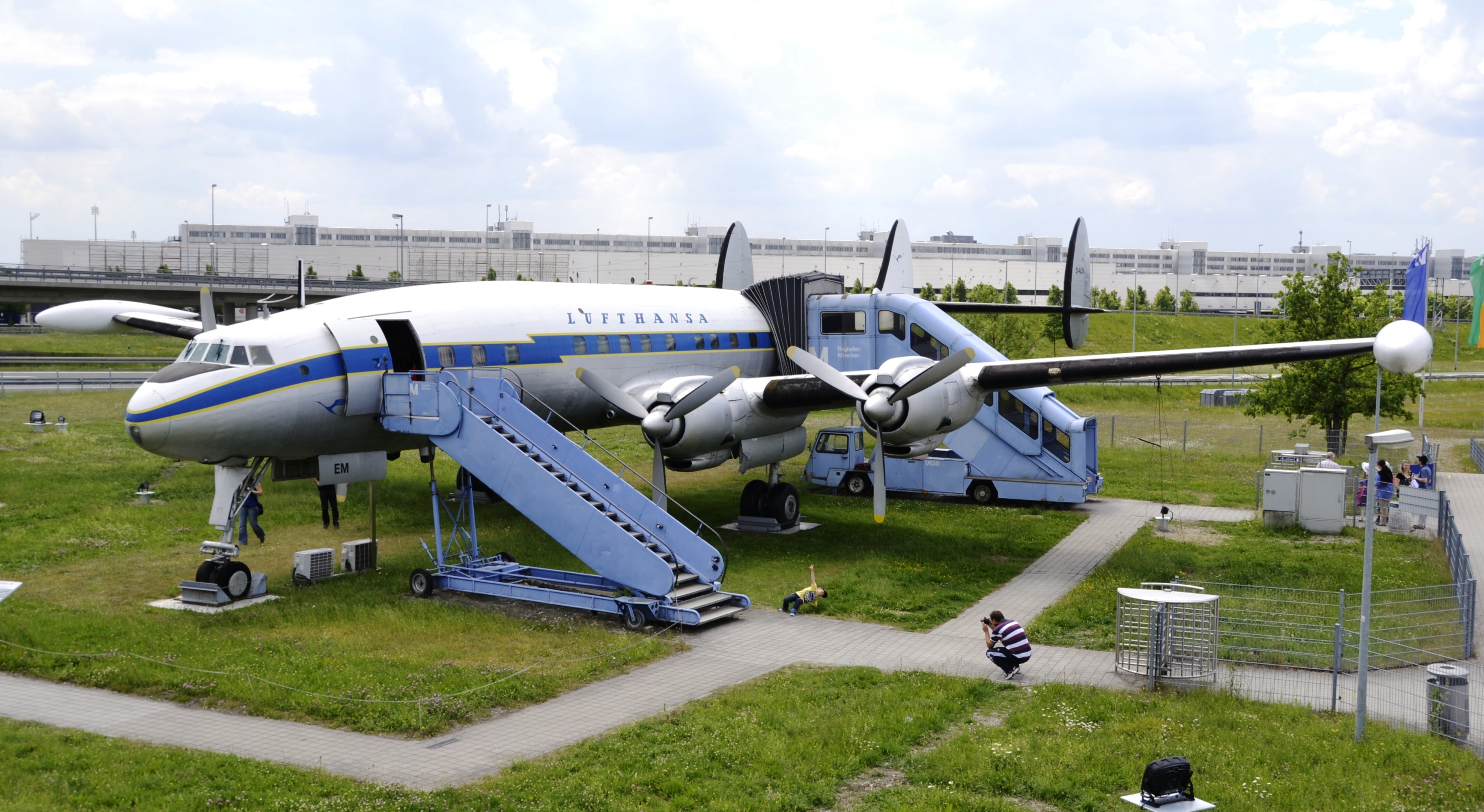 A Lockheed L-1049 G Super Constellation (D-ALEM) at the Munich Airport Visitors Park.